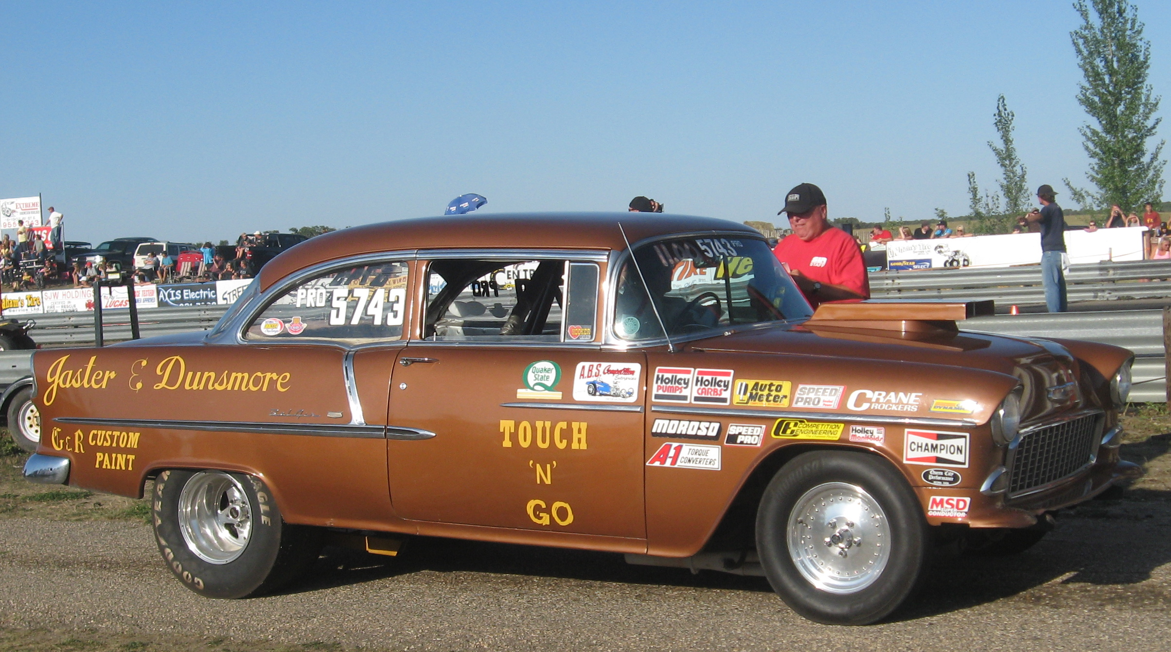 'Touch 'N' Go' '55 Bel Air Pro Street dragster getting a timeslip at SIR, drag strip 13km from Saskatoon, SK, 23 Aug 2008. Note the decals for contingency money